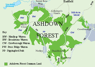 A map of Ashdown Forest, East Sussex, showing its common land and highlighting the largest of the enclosures confirmed in the 1693 decree that divided up the forest. The major enclosures are at Pippingford Park and Old Lodge (PP) ; Crowborough Warren (CW); Hindleap Warren (HW); 500 Acre Wood; Prestridge Warren (PW); and Broadstone Warren (BW).